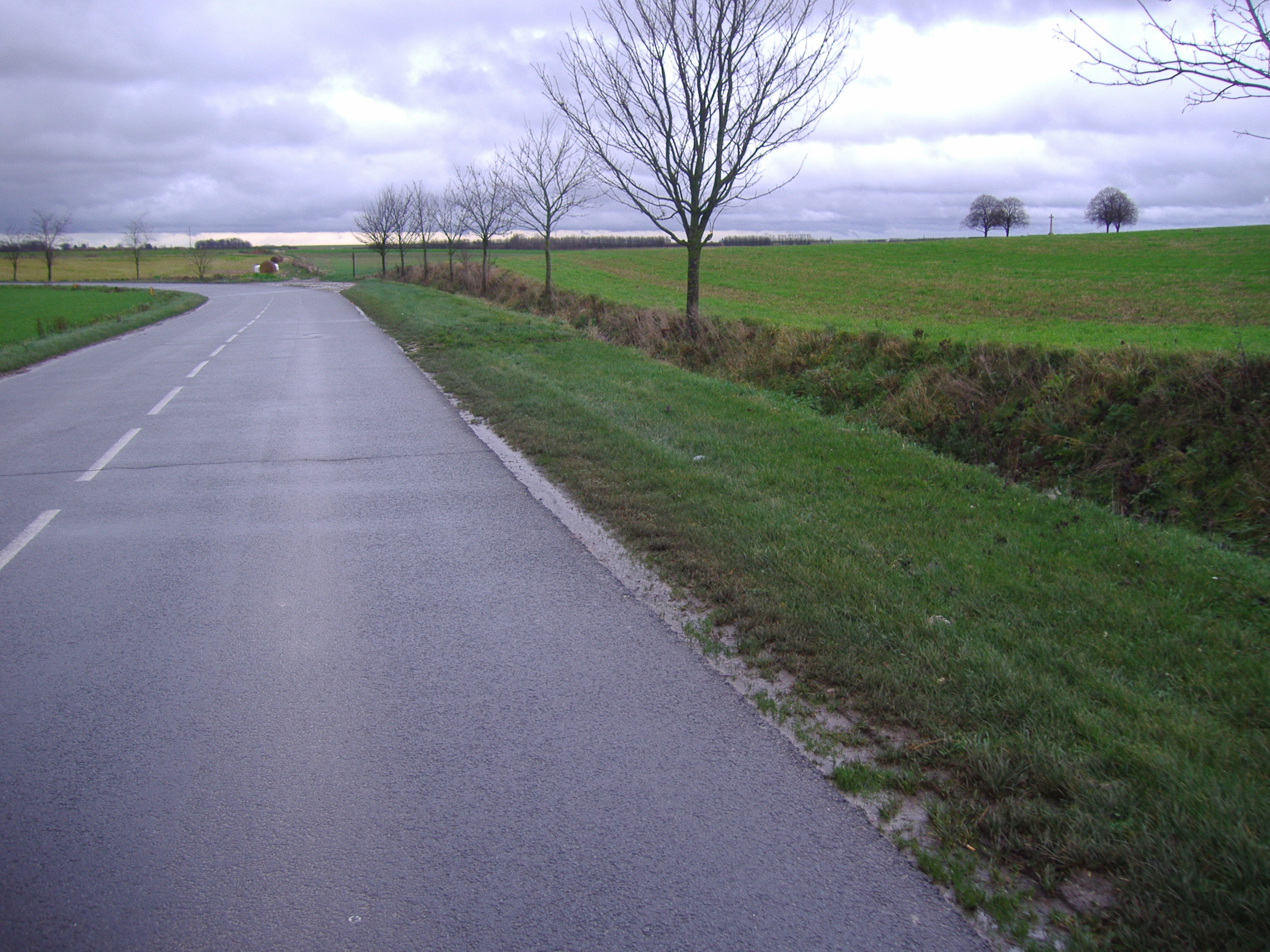 A Digital Photograph of Roclincourt by M Hobbs